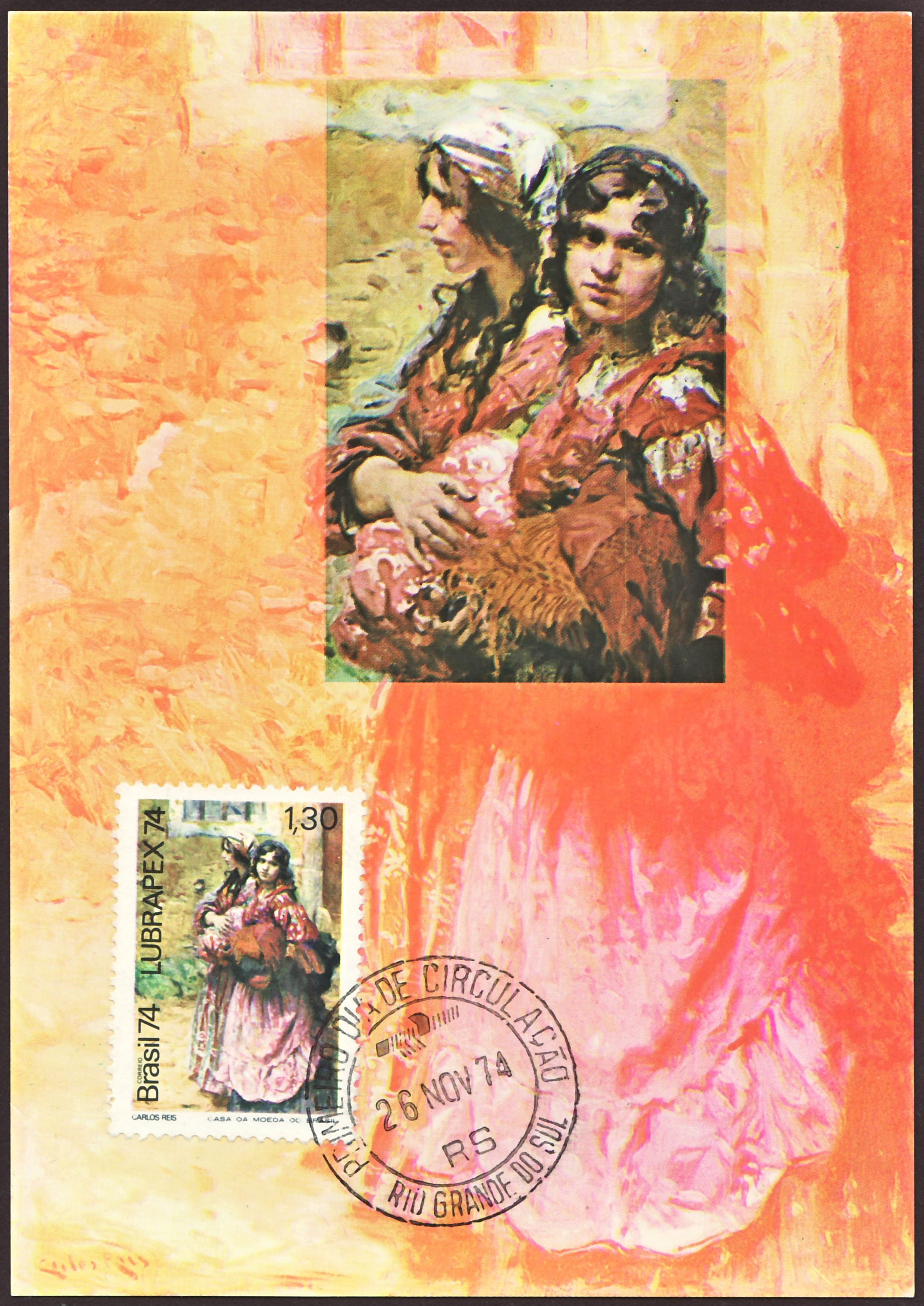 Stamp and associated maximum card of Brazil; 1974; commemorative stamp to the International Stamp Exhibition "Lubrapex 74" ("Exposiçāo Filatélica Luso-Brasileira, São Paulo, from 26 November 1974 until 4 December 1974 date QS:P,+1974-00-00T00:00:00Z/9,P580,+1974-11-26T00:00:00Z/11,P582,+1974-12-04T00:00:00Z/11"); painting of Carlos Reis (1863-1940); maximum card = motive identical or associated stamp + postcard picture + First Day postmark Stamp: Michel: No. 1464; Yvert & Tellier: No. 1131; Scott: No. 1372 Color: multicolored Watermark (stamp): none Numeral value (stamp): 1.30 (Cruzeiros) Postage validity (stamp): from 26 November 1974 date QS:P,+1974-11-26T00:00:00Z/7,P580,+1974-11-26T00:00:00Z/11 Stamp picture size (without names line): 24 x 36 mm Post card size: 105 x 149 mm Postmark: First Day postmark, Rio Grande do Sul, 26 November 1974, (two-circle postmark with three-lines date area without fess; large size; 32 mm outer circle)